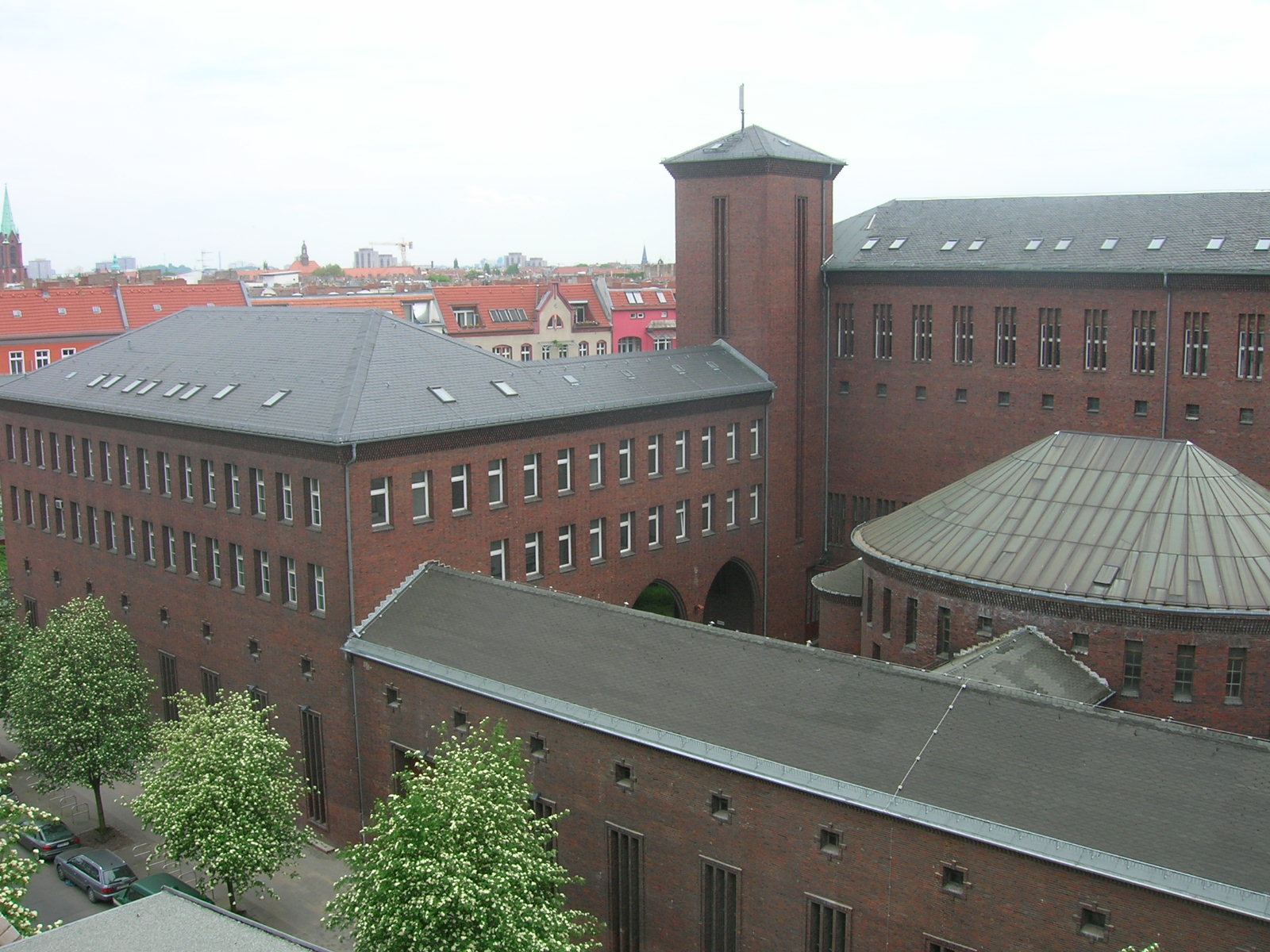 Berlin, electric power transformation substation (Umspannwerk) in Prenzlauer Berg, Kopenhagener Straße